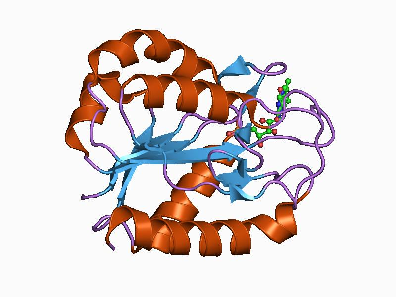 Cartoon representation of the molecular structure of protein registered with 1czk code.